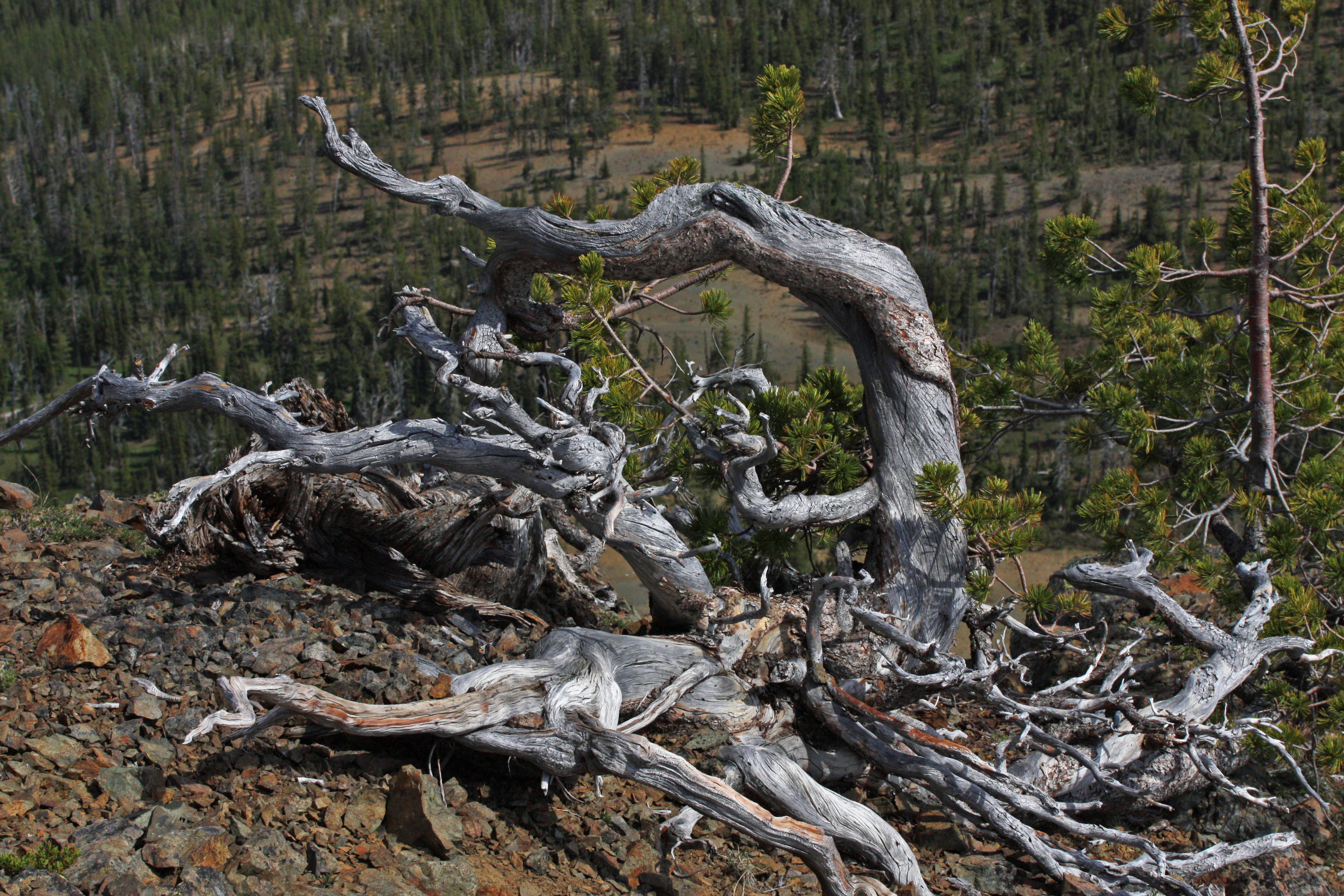 Whitebark Pine, still partly alive.